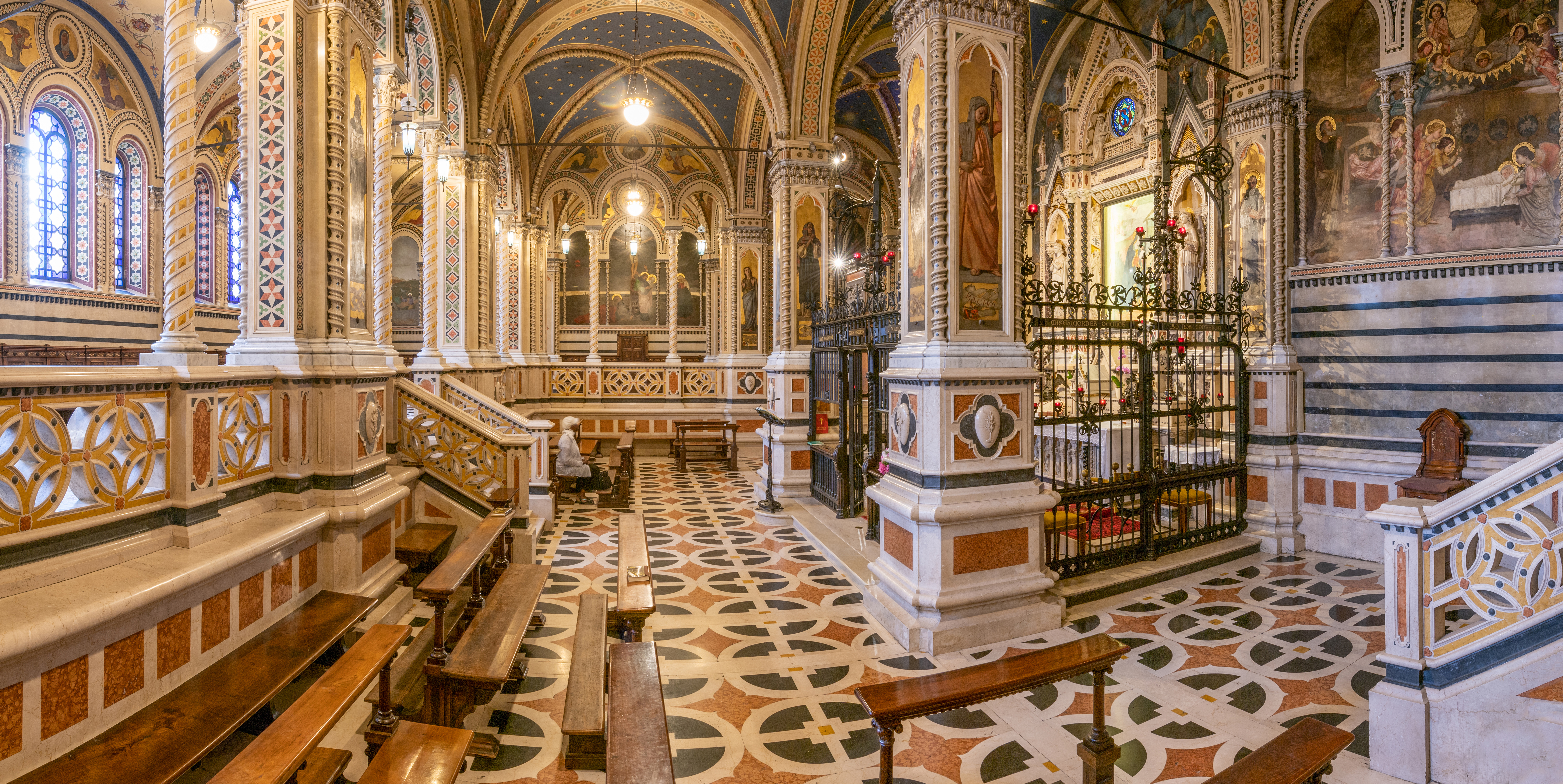 Internal view of the Santuario di Santa Maria delle Grazie church in Brescia